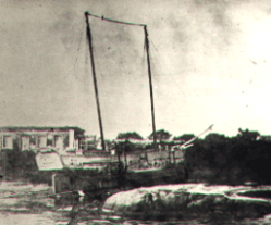 Ship Seival, part of the Rio-grandense Navy during the War of Tatters.